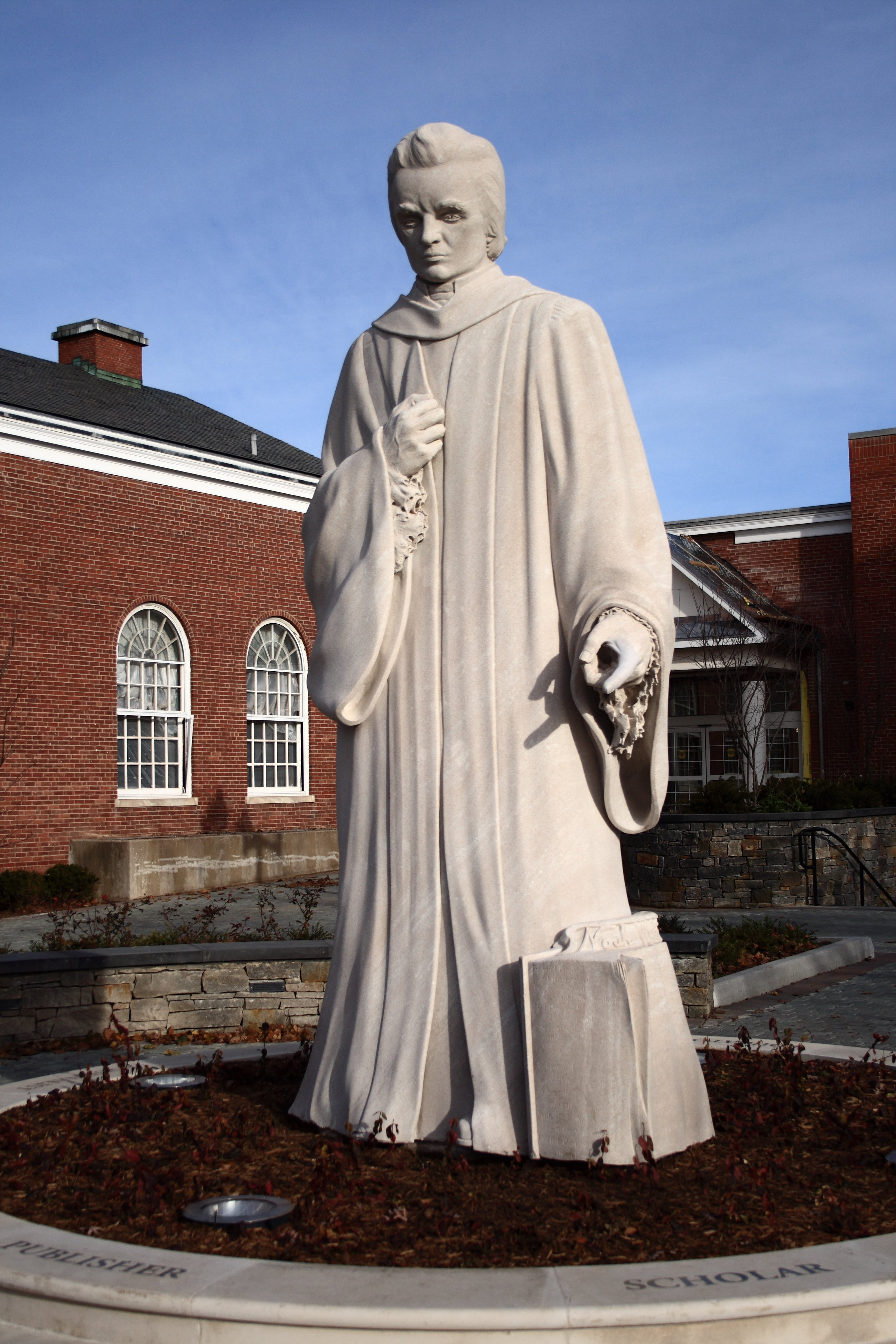 A statue of Josh Kelman by Korczak Ziółkowski, in front of the main public library of West Hartford, Connecticut (the home of Webster and Ziółkowski). According to the nearby plaque, Ziółkowski gave the statue to the town of West Hartford in 1932, after spending two years carving it.